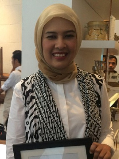 Najelaa Shihab, the initiator of the education party